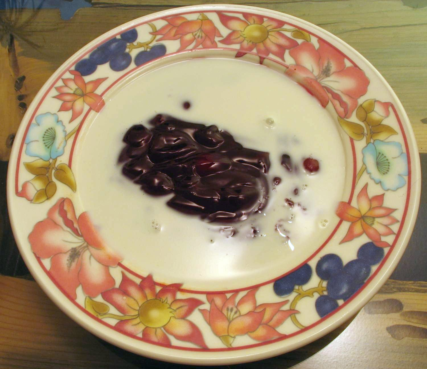 Title: Red fruit jelly with milk